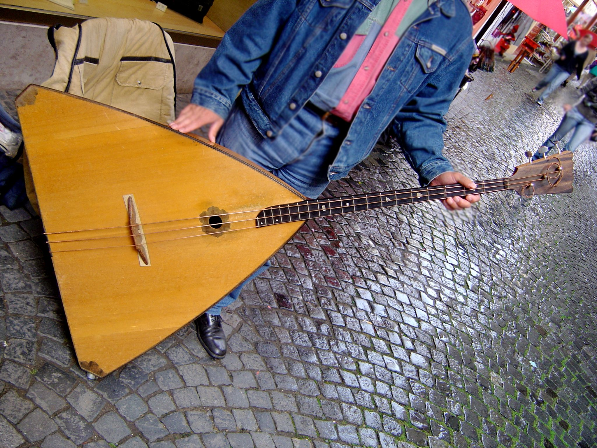 Balalaika bass. I took this picture in august 2006